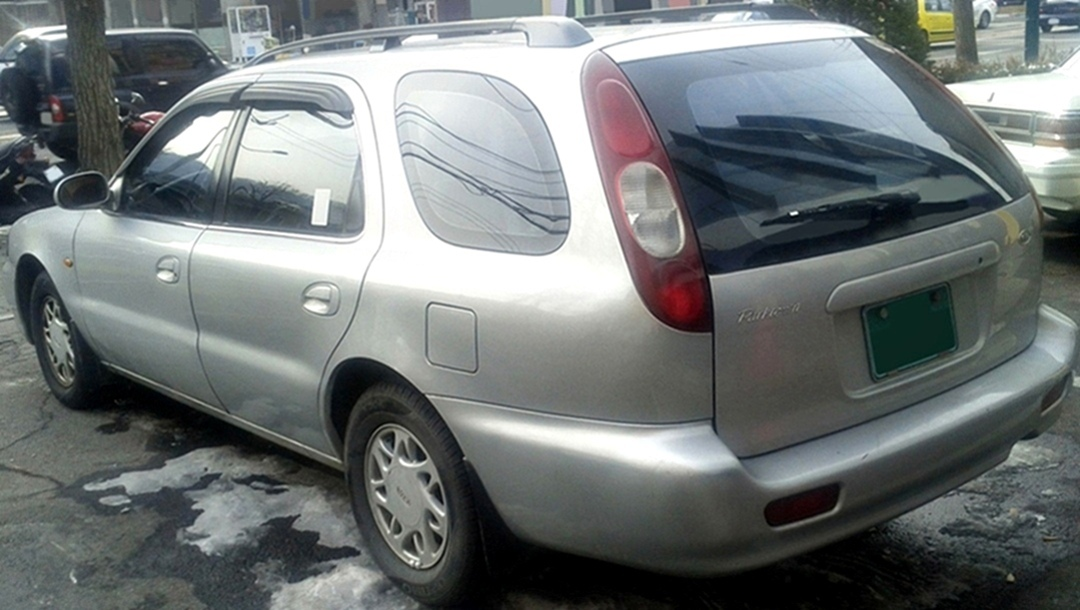 Kia Parktown